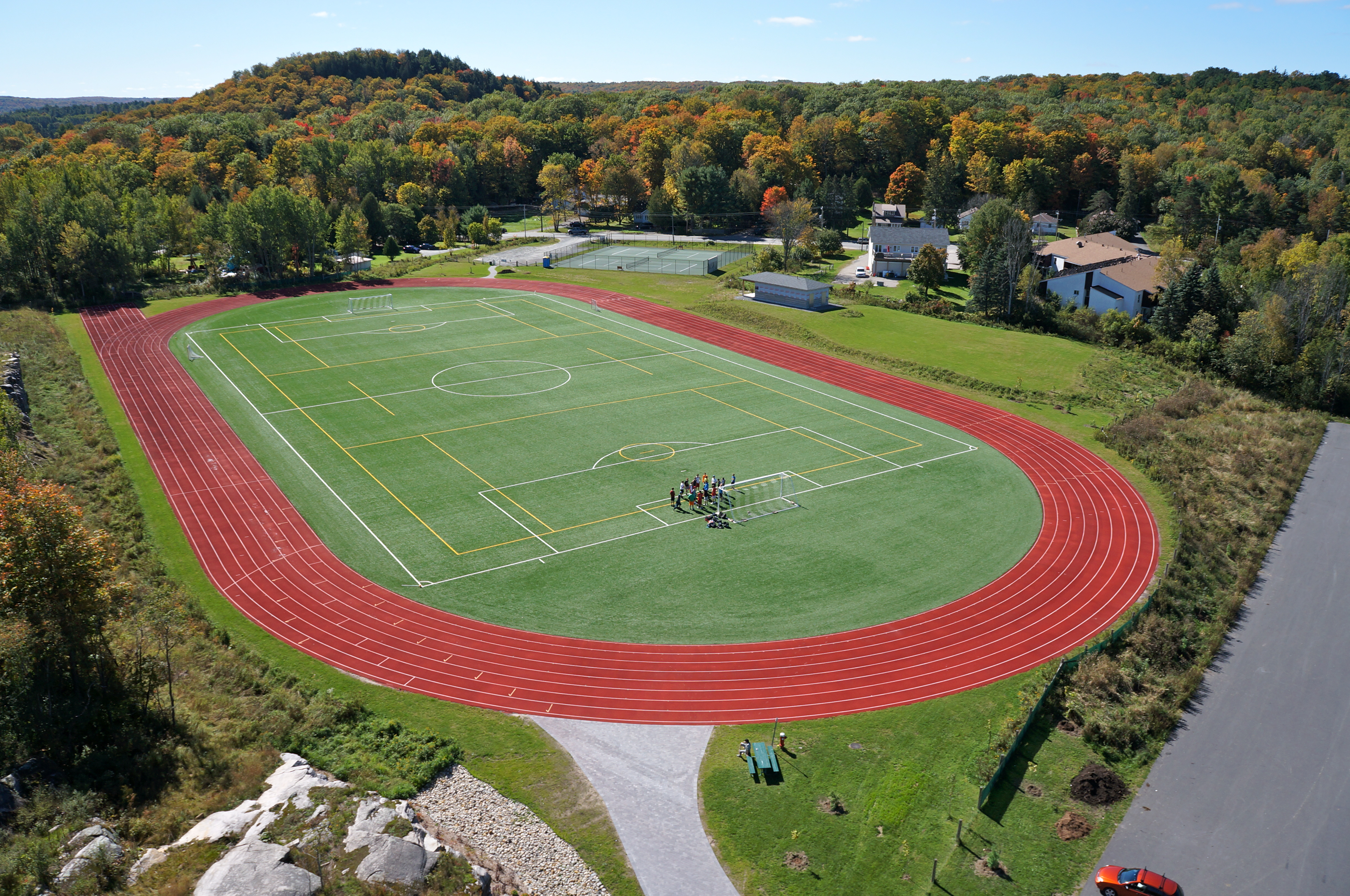 Fall 2013